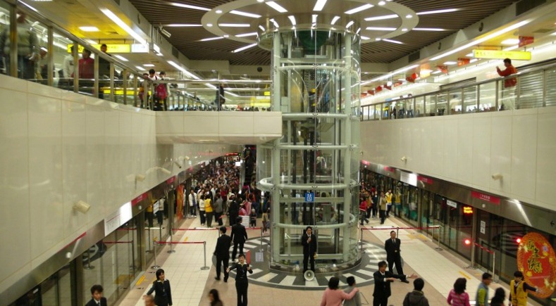 Sanduo Shopping District Station platform during Chinese New Year 2008